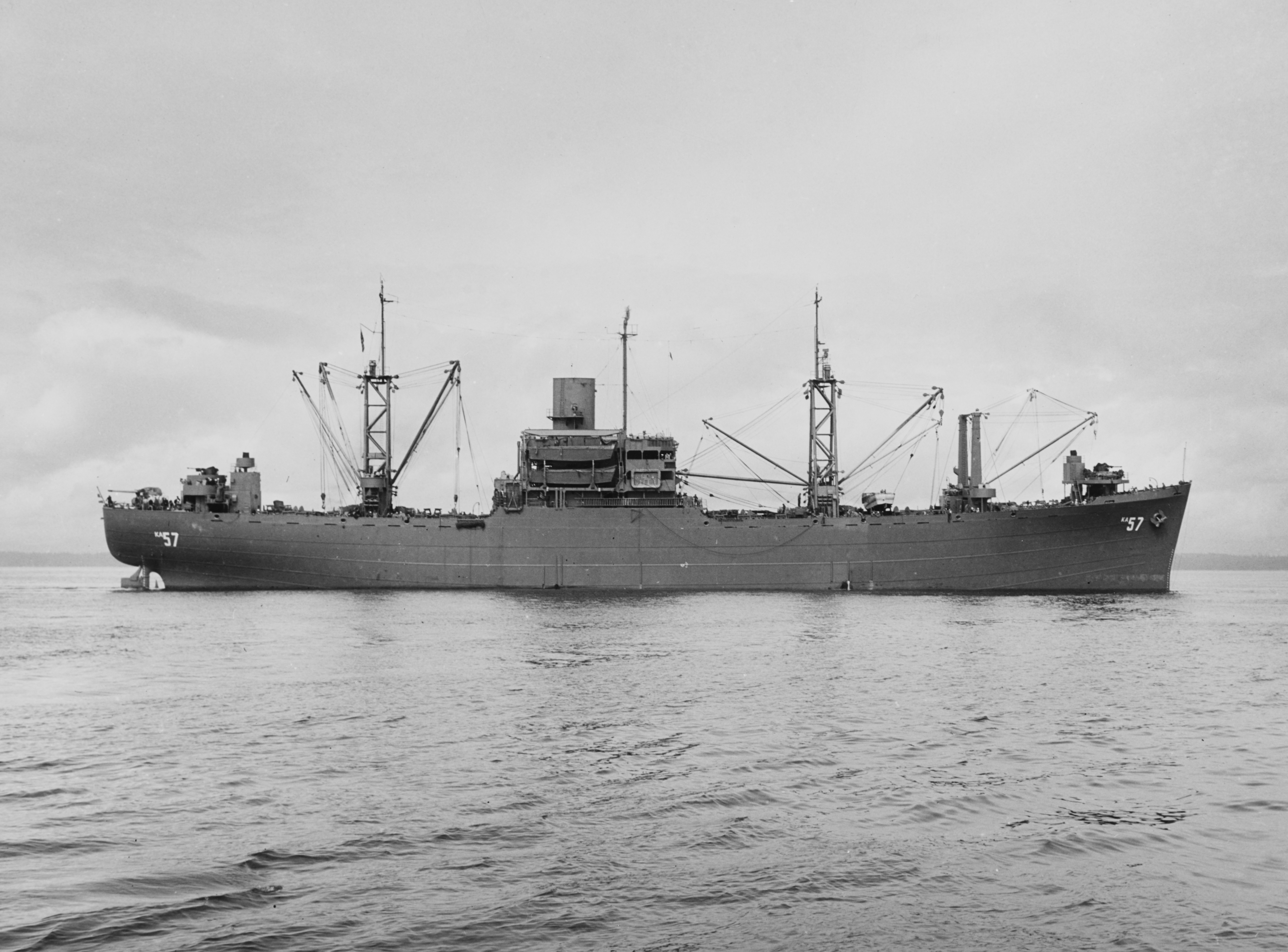 The U.S. Navy attack cargo ship USS Capricornus (AKA-57) underway at low speed, circa 1945.